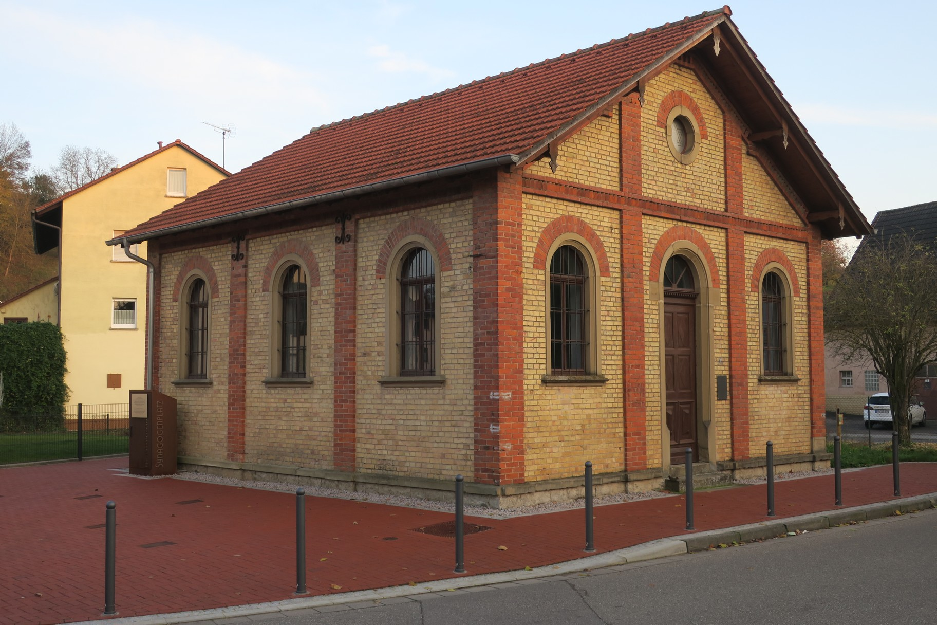 The former synagogue in Steinsfurt with the memorial-precinct for the victims of Nazi persecution.